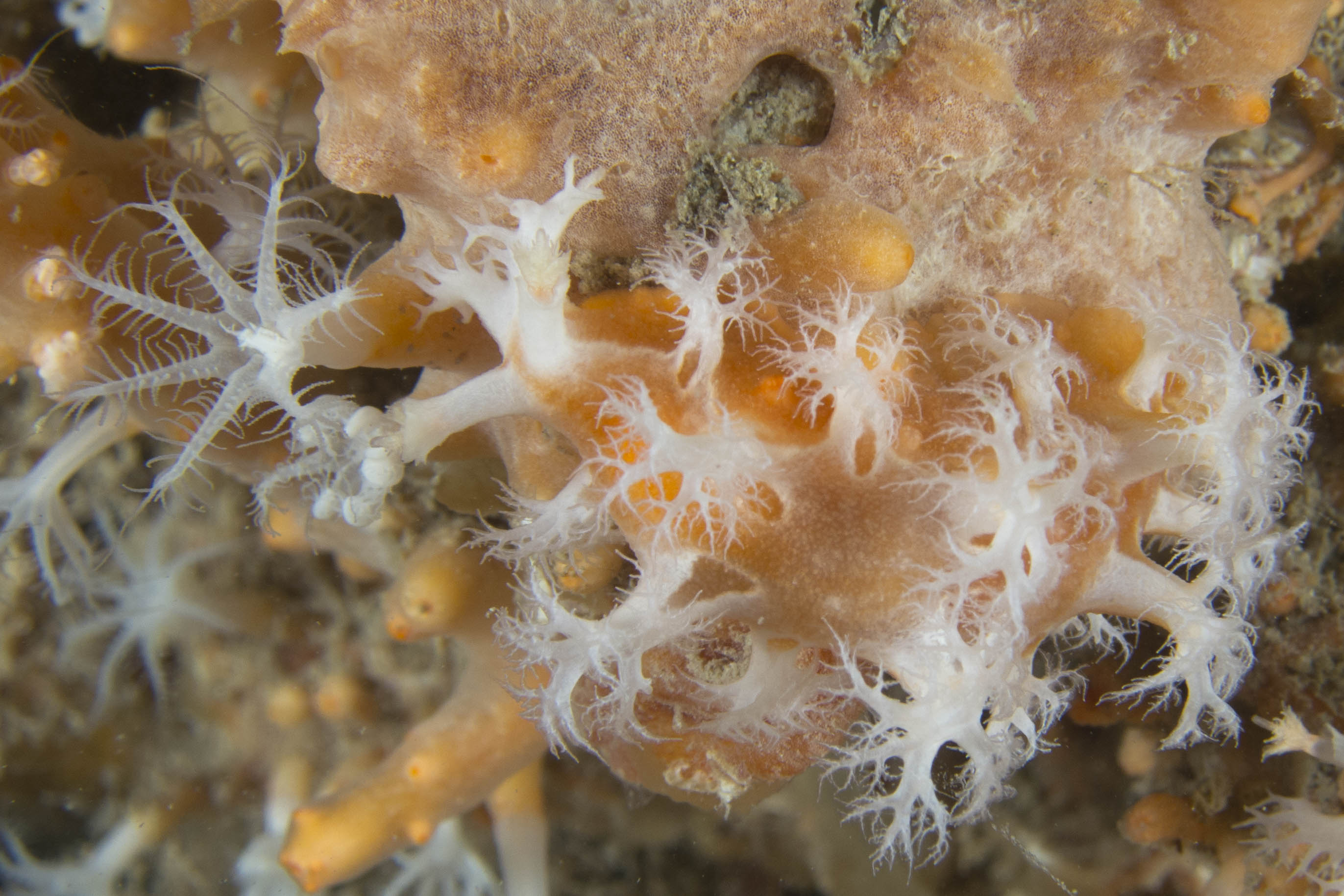 This undescribed Tritonia species mimics its prey species coral. This shot shows both a coral polyp and the Tritonia.